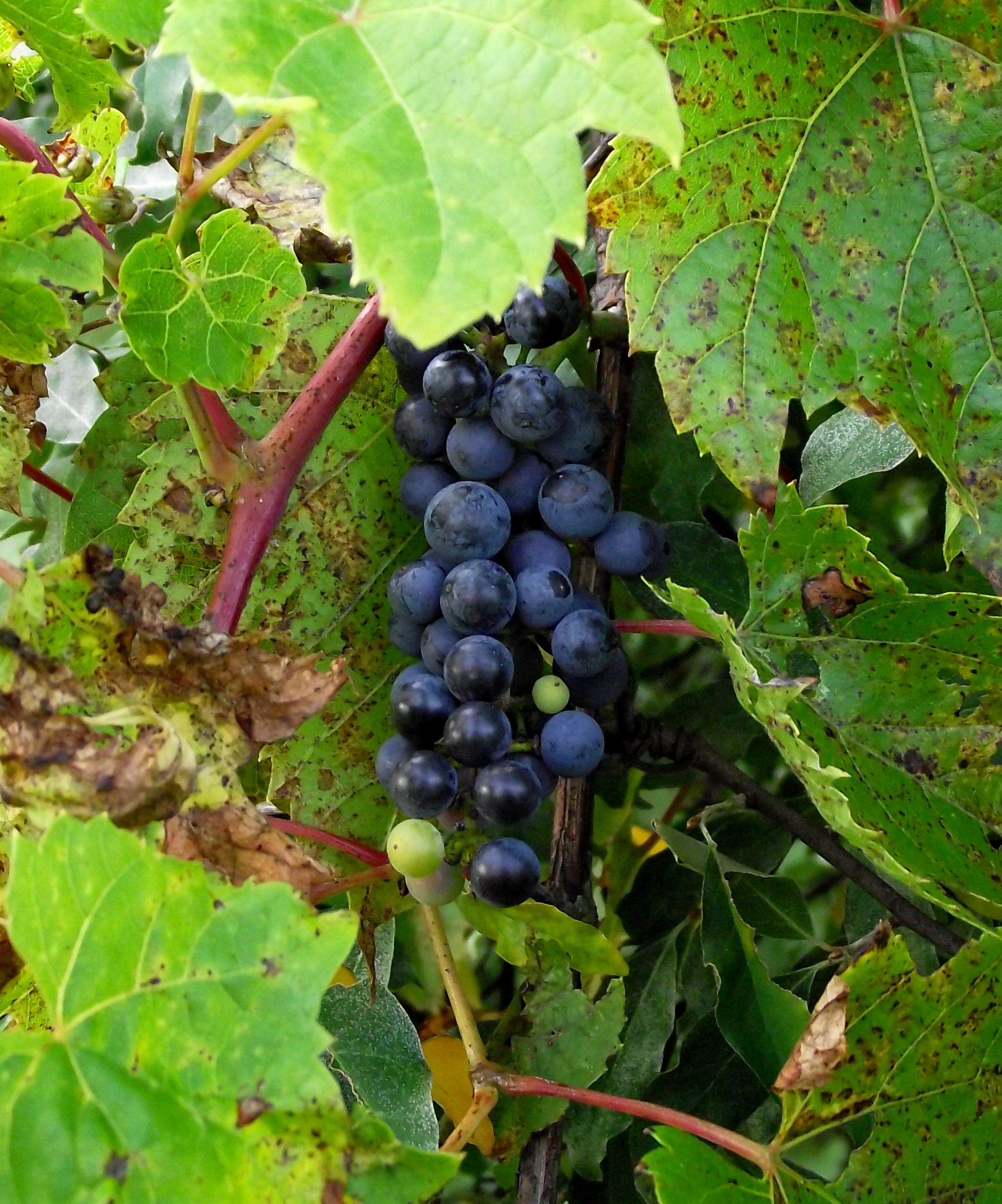 Cluster of frost grapes (Southeast Michigan)